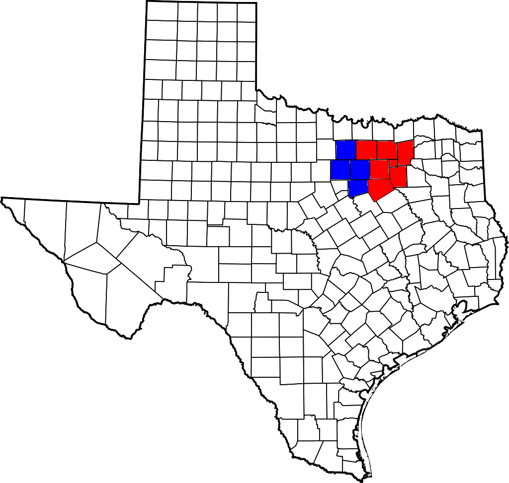 DFW Metroplex counties separated by division Dallas–Plano–Irving Fort Worth–Arlington–Grapevine